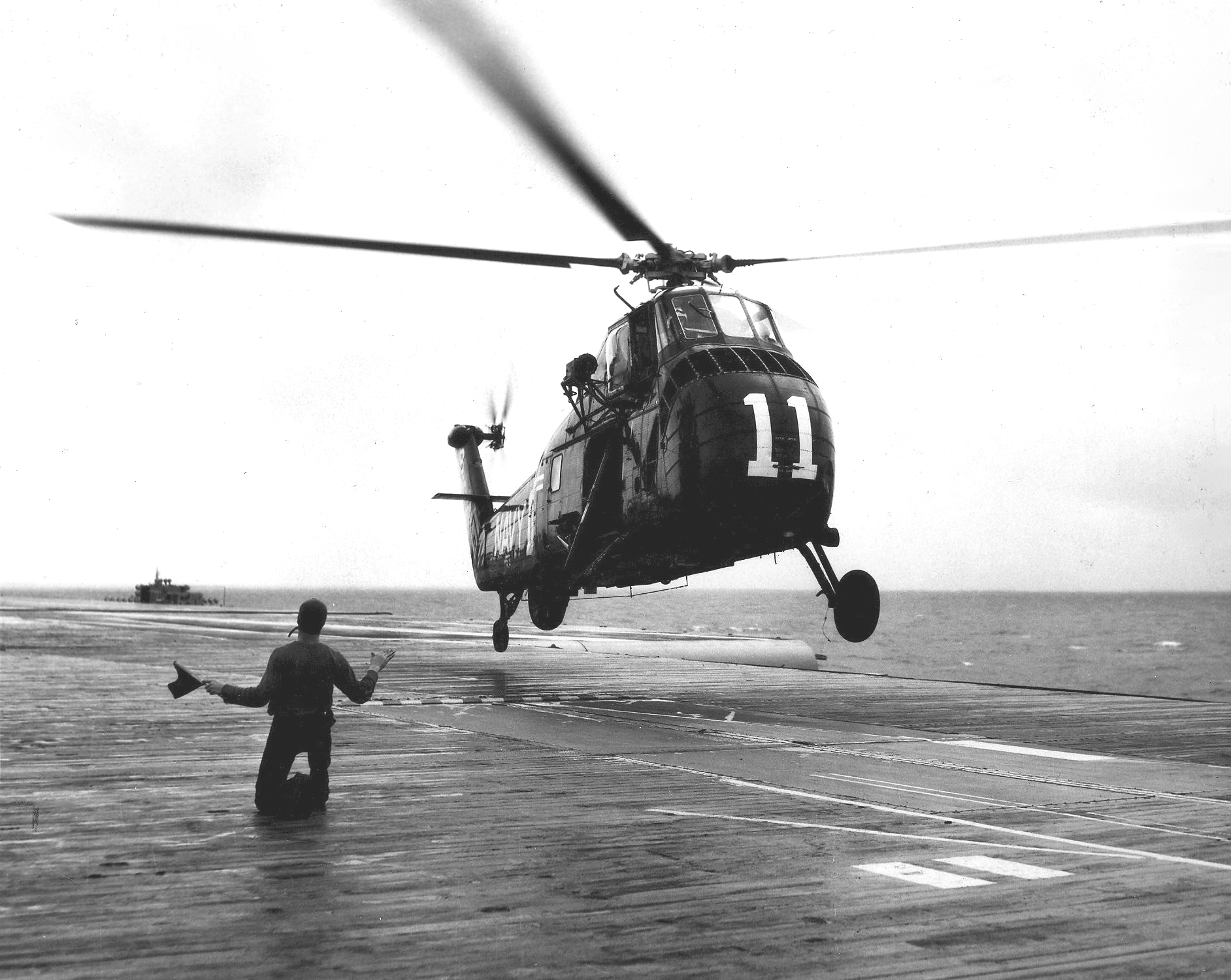 A U.S. Navy Sikorsky HSS-1 Seabat of Helicopter Anti-Submarine Squadron HS-3 "Tridents" lands aboard the aircraft carrier USS Essex (CVA-9).